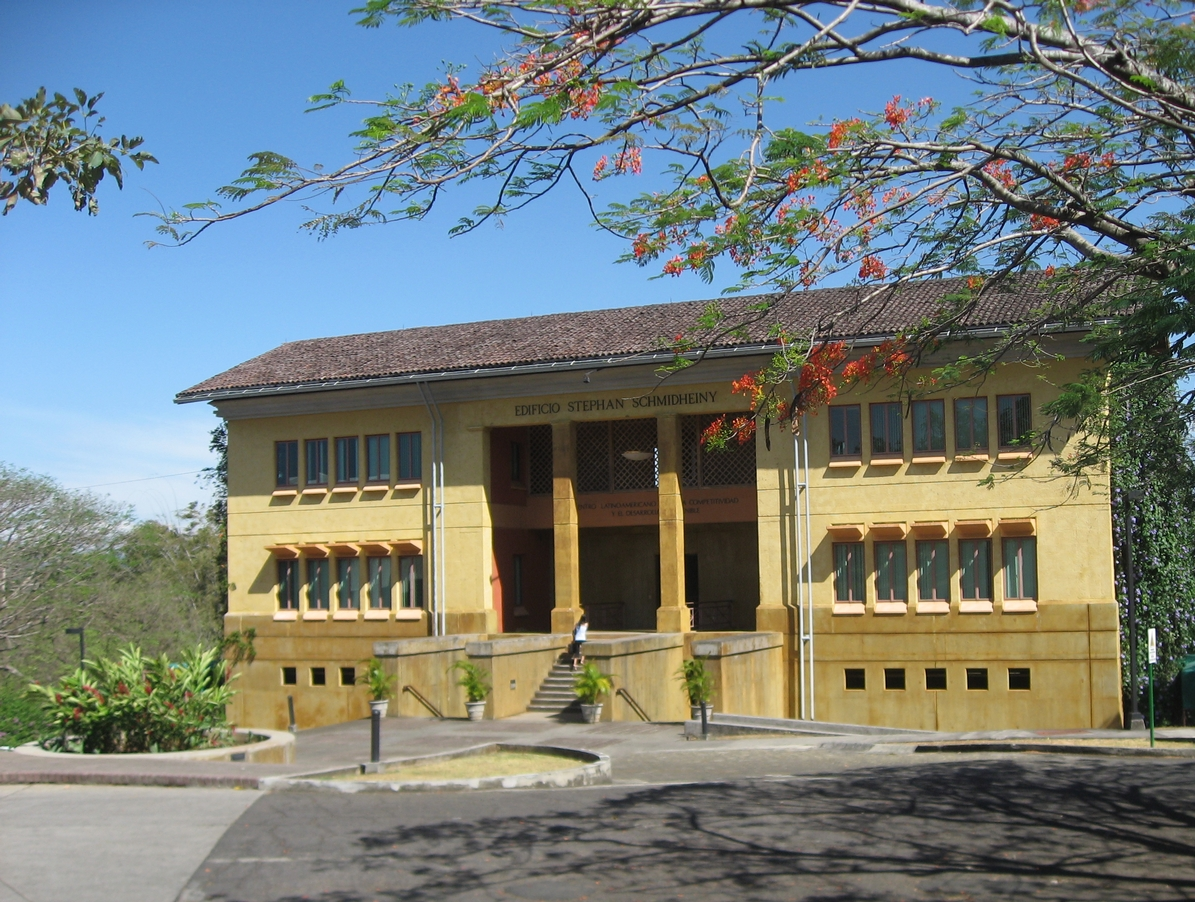 Photo INCAE Business School Library